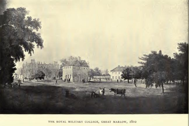 Royal Military College at Great Marlow, 1810, before its removal to Sandhurst in 1812.